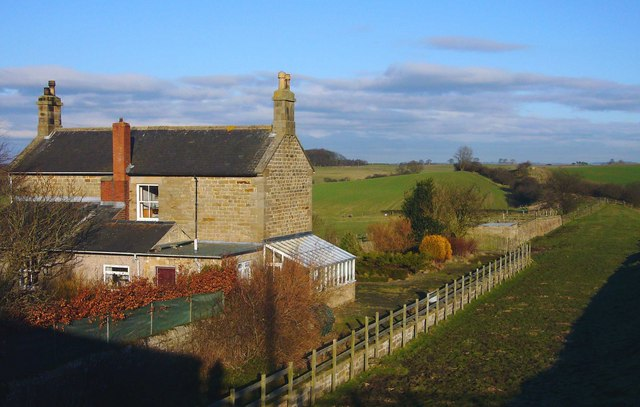 Elrington Station Elrington, one of the intermediate stations on the Hexham to Allendale Line which opened in 1869, but due to falling revenue closed to passengers in 1930. Goods traffic however, continued until 1950. The fine station house together with platform and goods bay still survive.